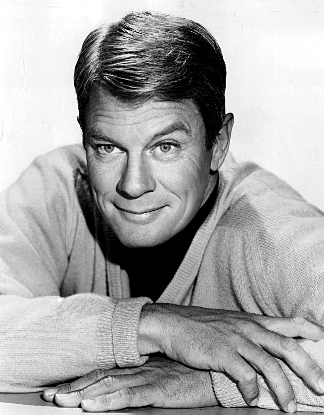 Publicity photo of Peter Graves.